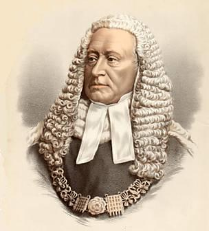 Chromolithograph, portrait of Sir Alexander Cockburn, Lord Chief Justice (d. 1880), published by Cassell, Petter & Galpin, London